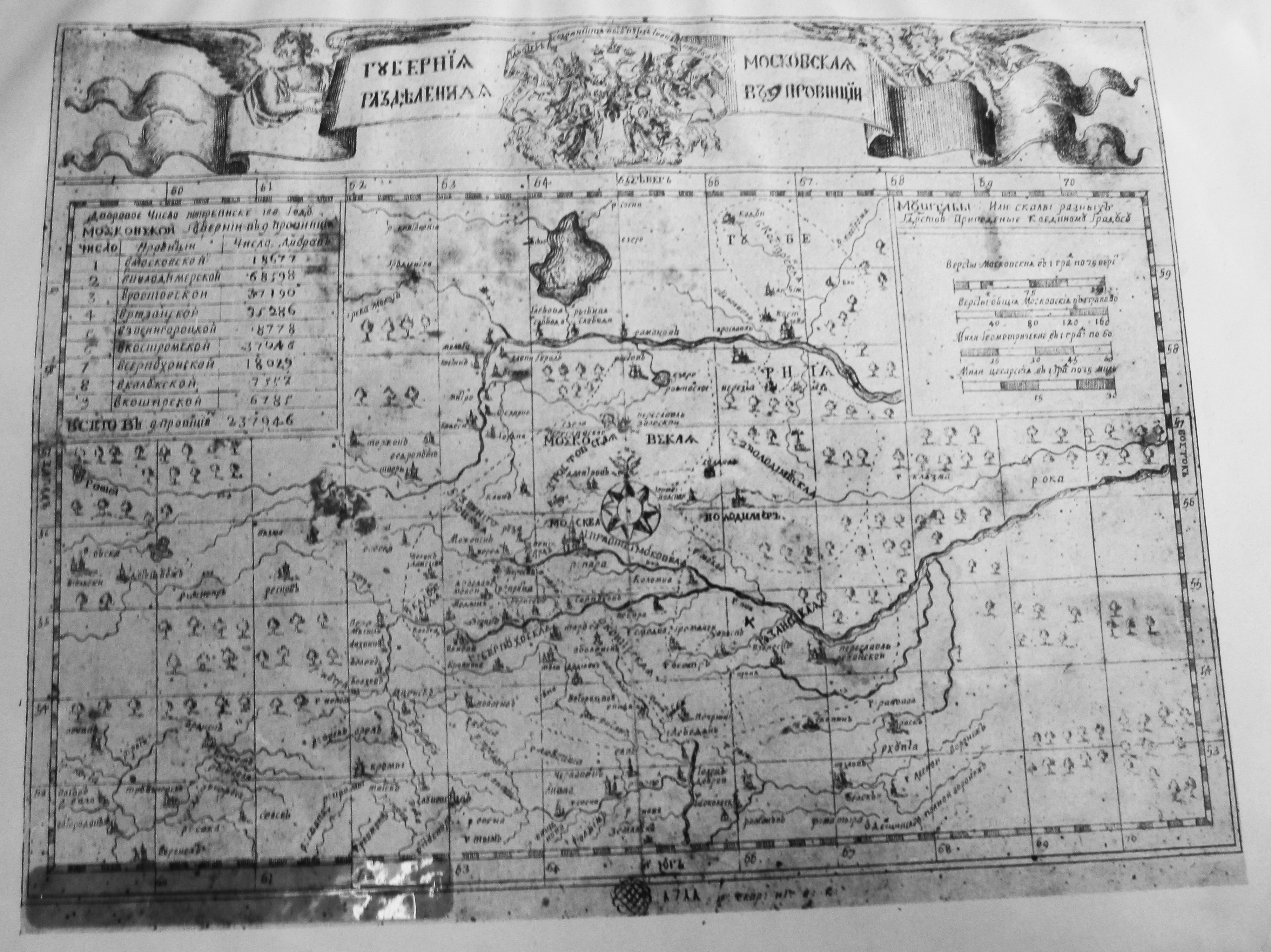 Map of Moscow Governorate by Vasily Kiprianov, 1711